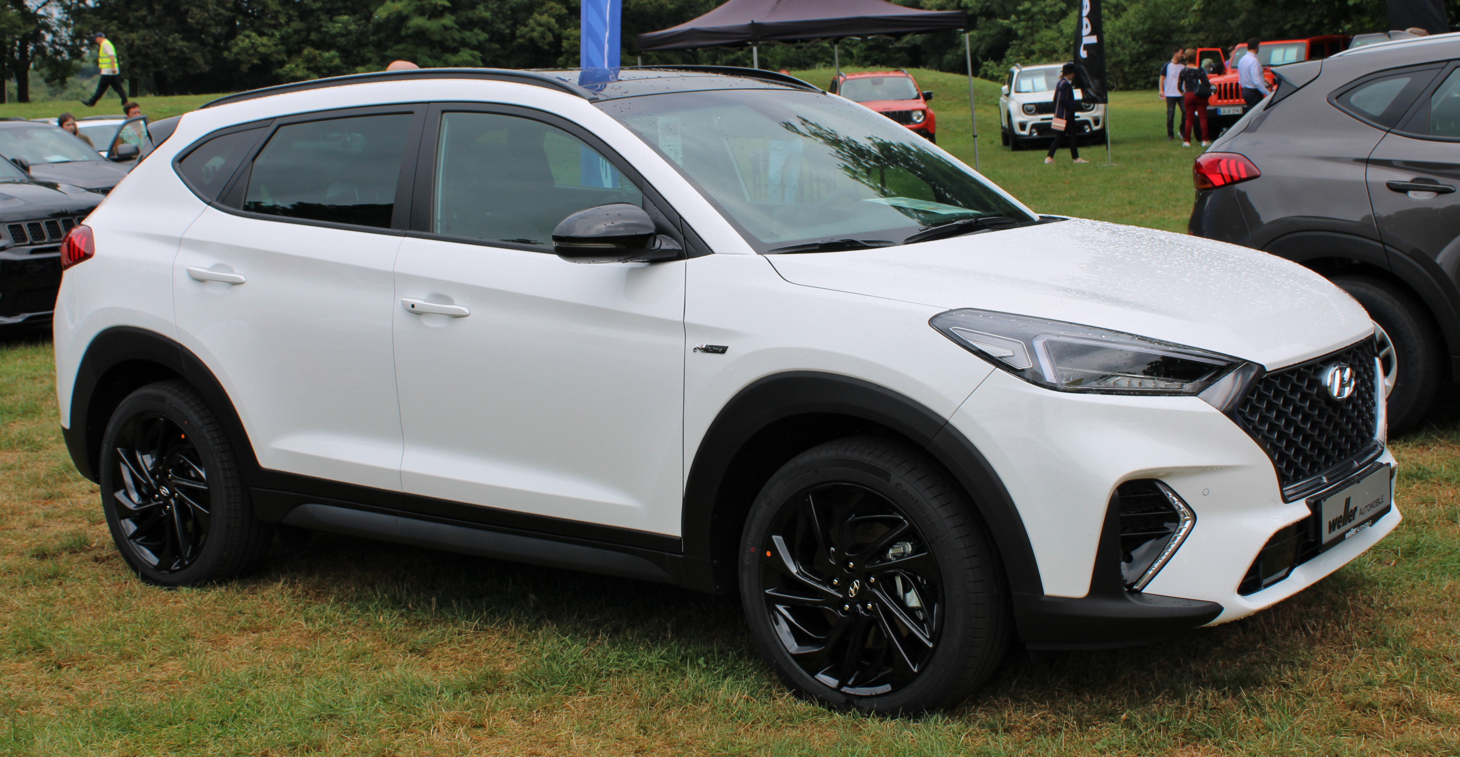 Hyundai Tucson N-Line at Schloss Monrepos 2019